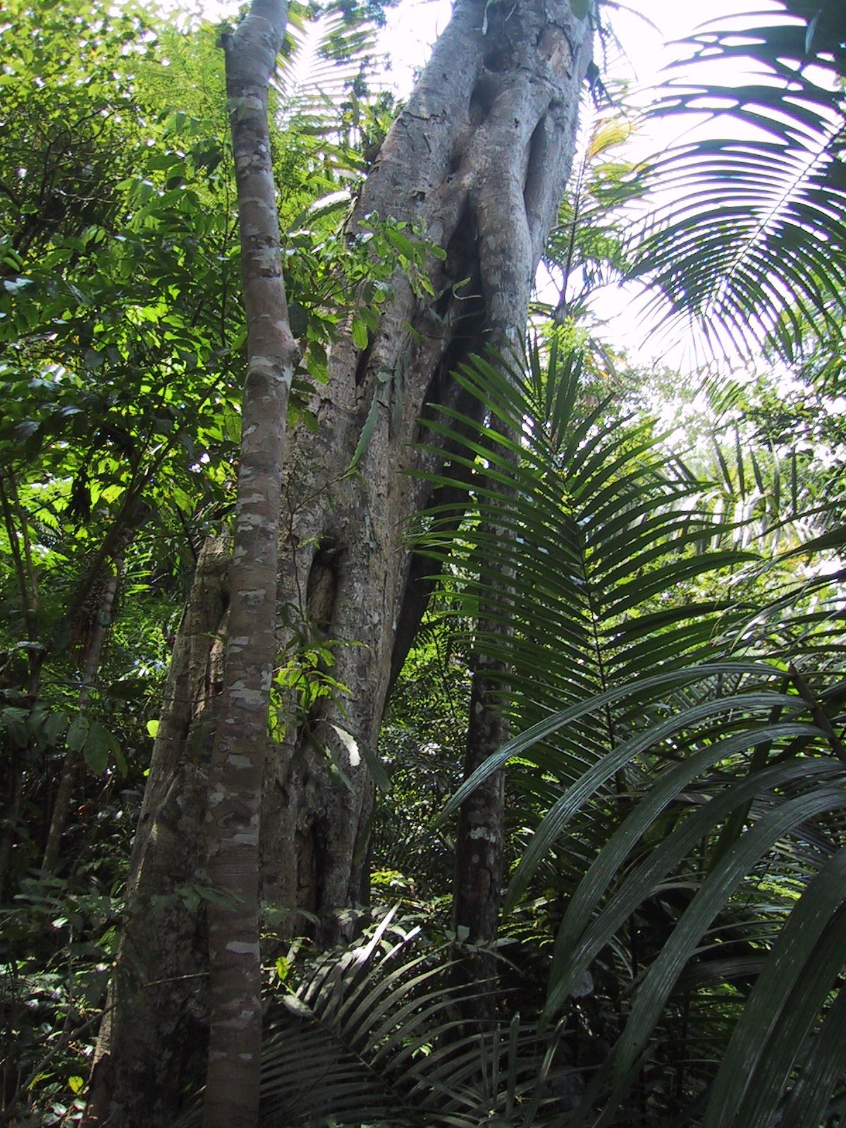 Rainforest in Panama